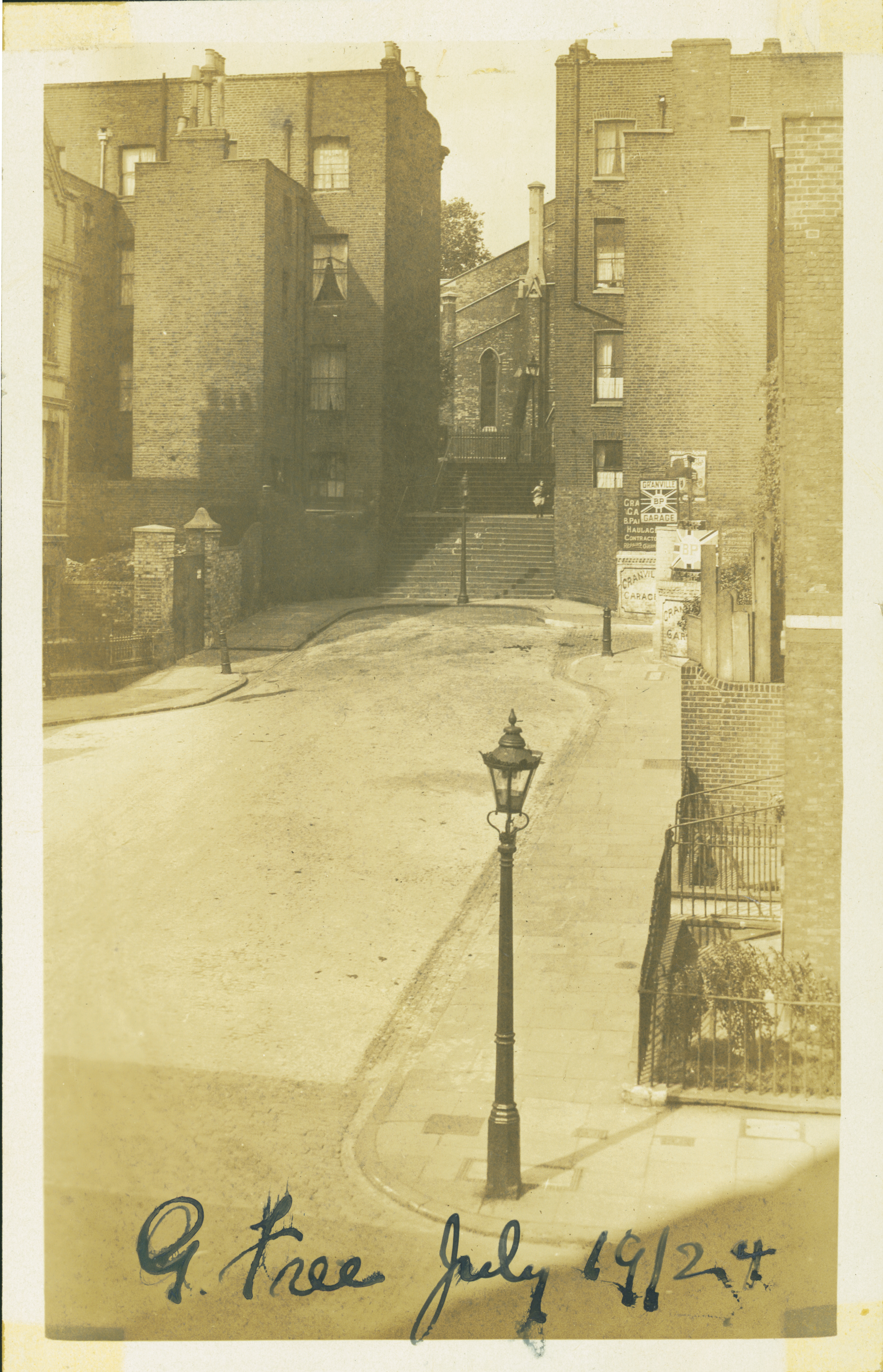 Photograph of Granville Place (now Gwynne Place), London WC1, in July 1924. The steps in Granville Place were the model for Riceyman Steps in the book of that name by Arnold Bennett. The photograph was probably taken from an upper room of The Bagnigge Wells Tavern public house, which stood almost opposite Granville Place at 39 Kings Cross Road. It was taken by George Free, my great-grandfather, who was at the time landlord of The Bagnigge Wells. For many years the photograph was taped into the frontispiece of a first edition of Arnold Bennett's book. Related image